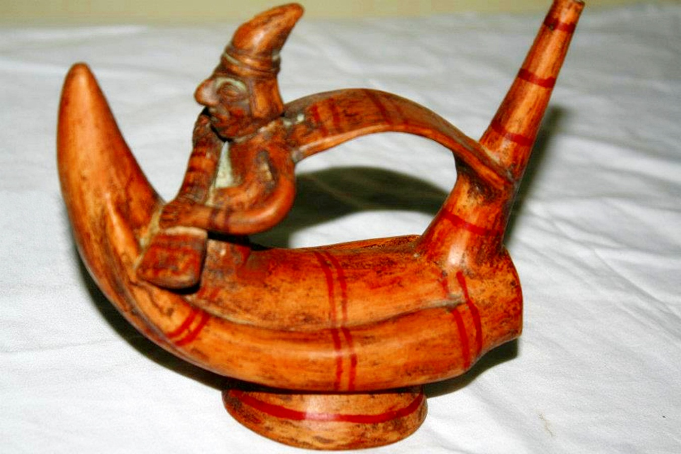 Caballito de totora ceramica mochica en Huanchaco